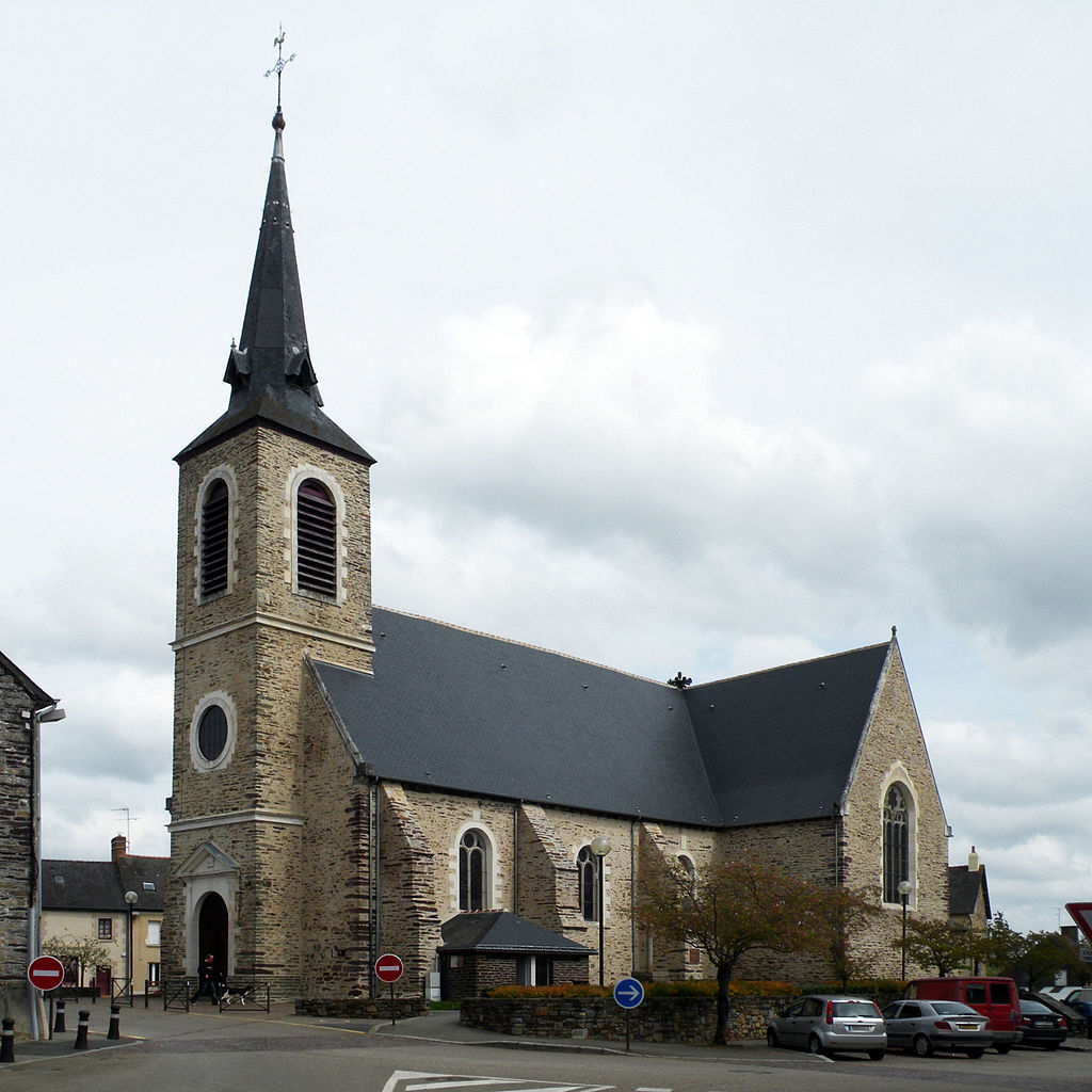 Church of Laillé